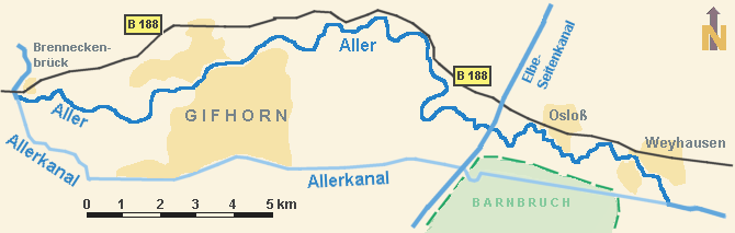 Diagram of the route of the Aller Canal, Lower Saxony, Germany